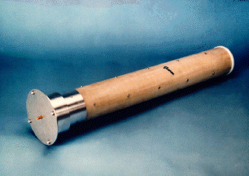 The Mars Global Surveyor Mars Relay (martian spacecraft)